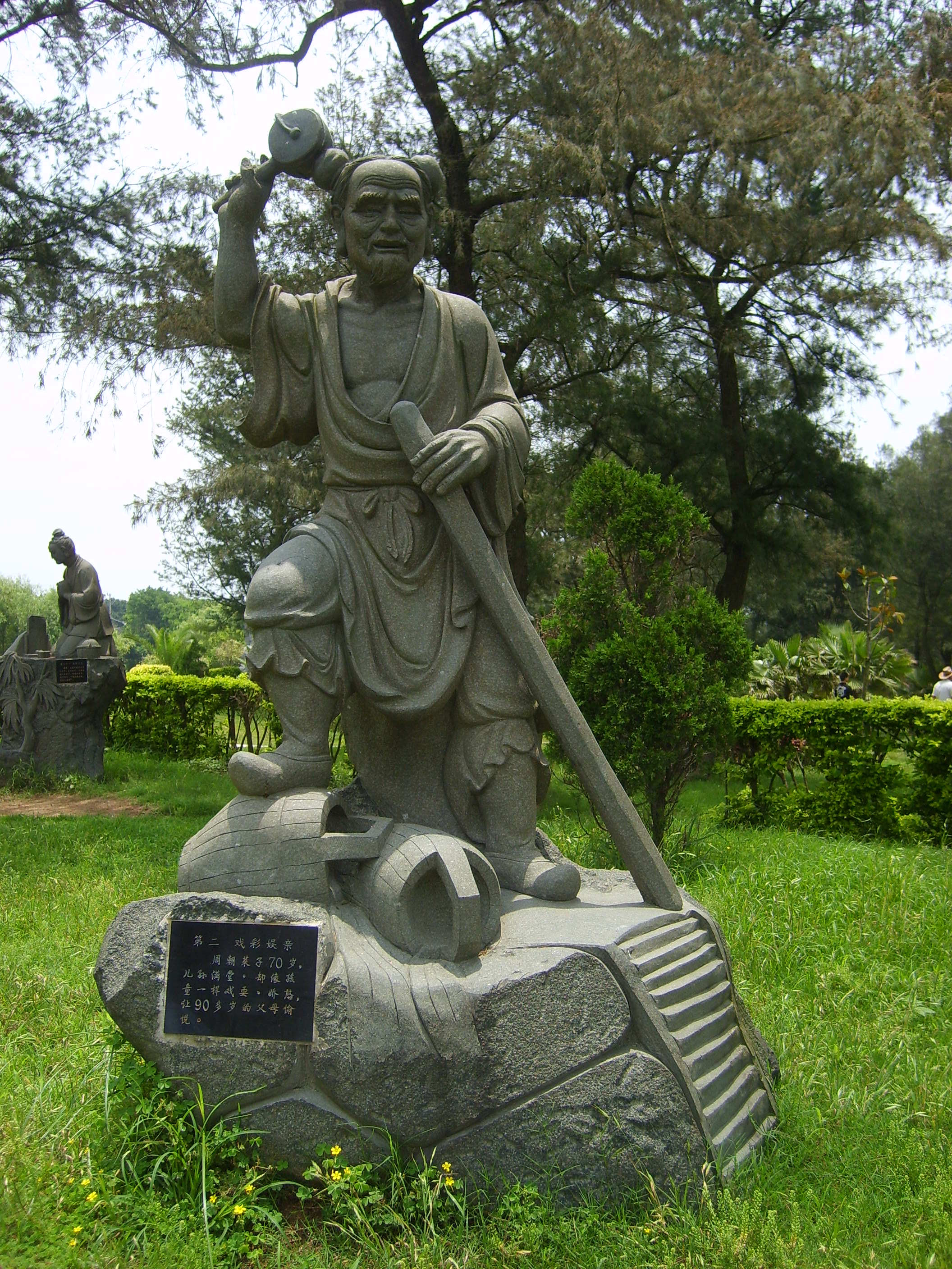 The Twenty-four Filial Exemplars - No. 2